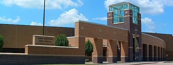 The main entrance of Alief Hasting High School